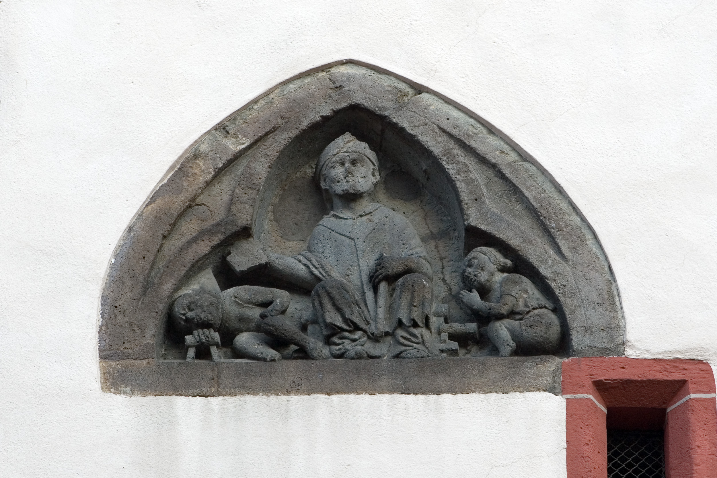 Frankfurt on the Main: Old Saint Nicholas Church, early-gothic tympanum in the western wall